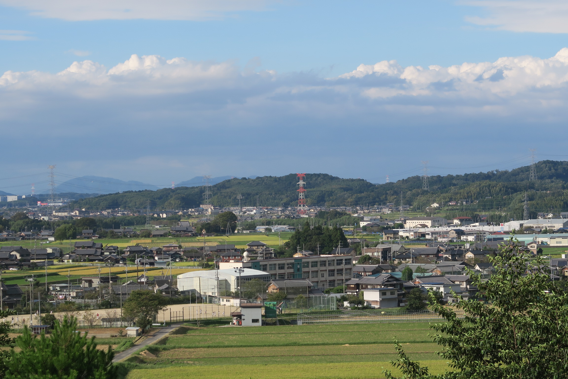 Scenery in Sugitani, Kōnan, Koka, Shiga, Japan